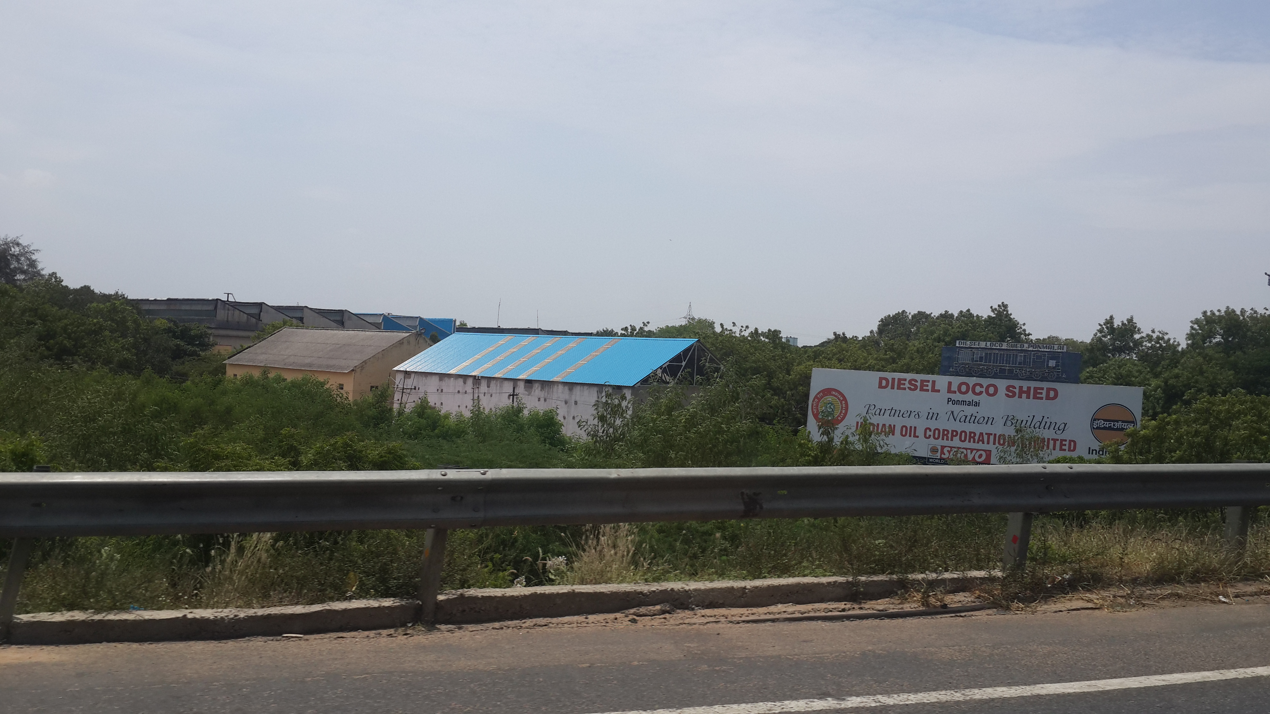 Full and broader view of Diesel Loco Shed in Ponmalai, Trichy